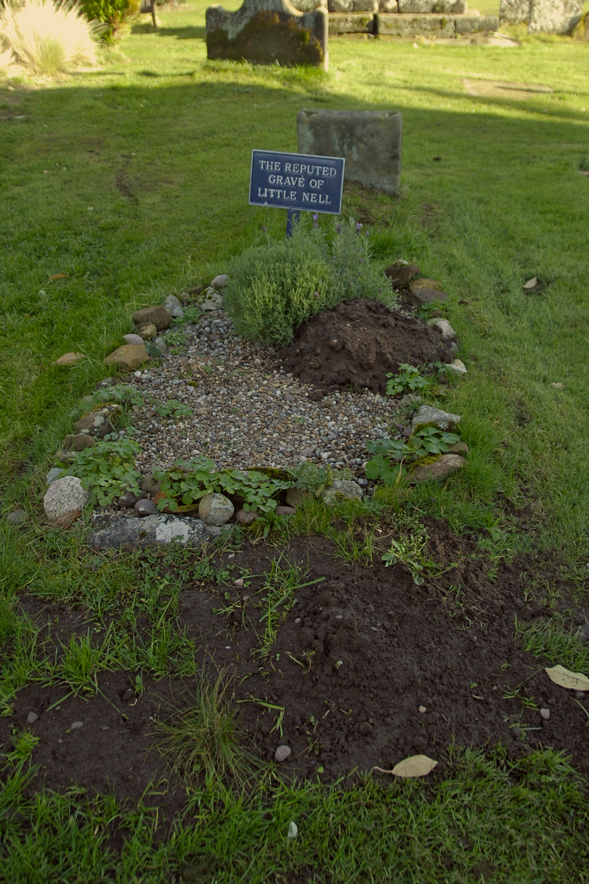 The reputed grave of Little Nell in St Bartholomew's parish churchyard, Tong, Shropshire